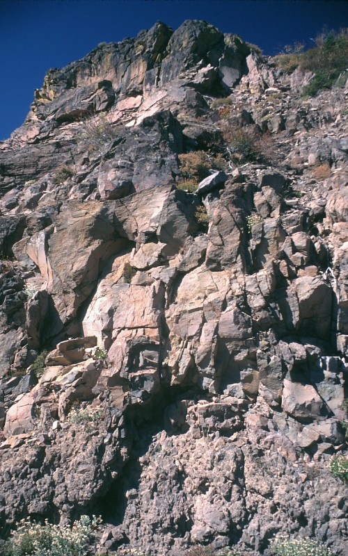 Andesite lava flow at Brokeoff Volcano (Mount Tehama)in California, USA. This cross section of an andesite lava flow shows internal features that are commonly found in thick flows. This flow is about 40 m thick. Thick flows often consist of massive interiors with columnar or blocky jointing, which is related to the slow rate of cooling within the flows. The tops and bottoms of thick flows, however, typically are surrounded by an irregular layer of blocky rubble (note base of flow, left). These rubble layers result from cooled, spiny lava on top of and along the steep front of an advancing flow. As the jagged flow front creeps forward, it steepens until small and large sections break off and roll ahead of the flow; the repeated collapse of the flow front produces a rubbly layer over which the flow moves.